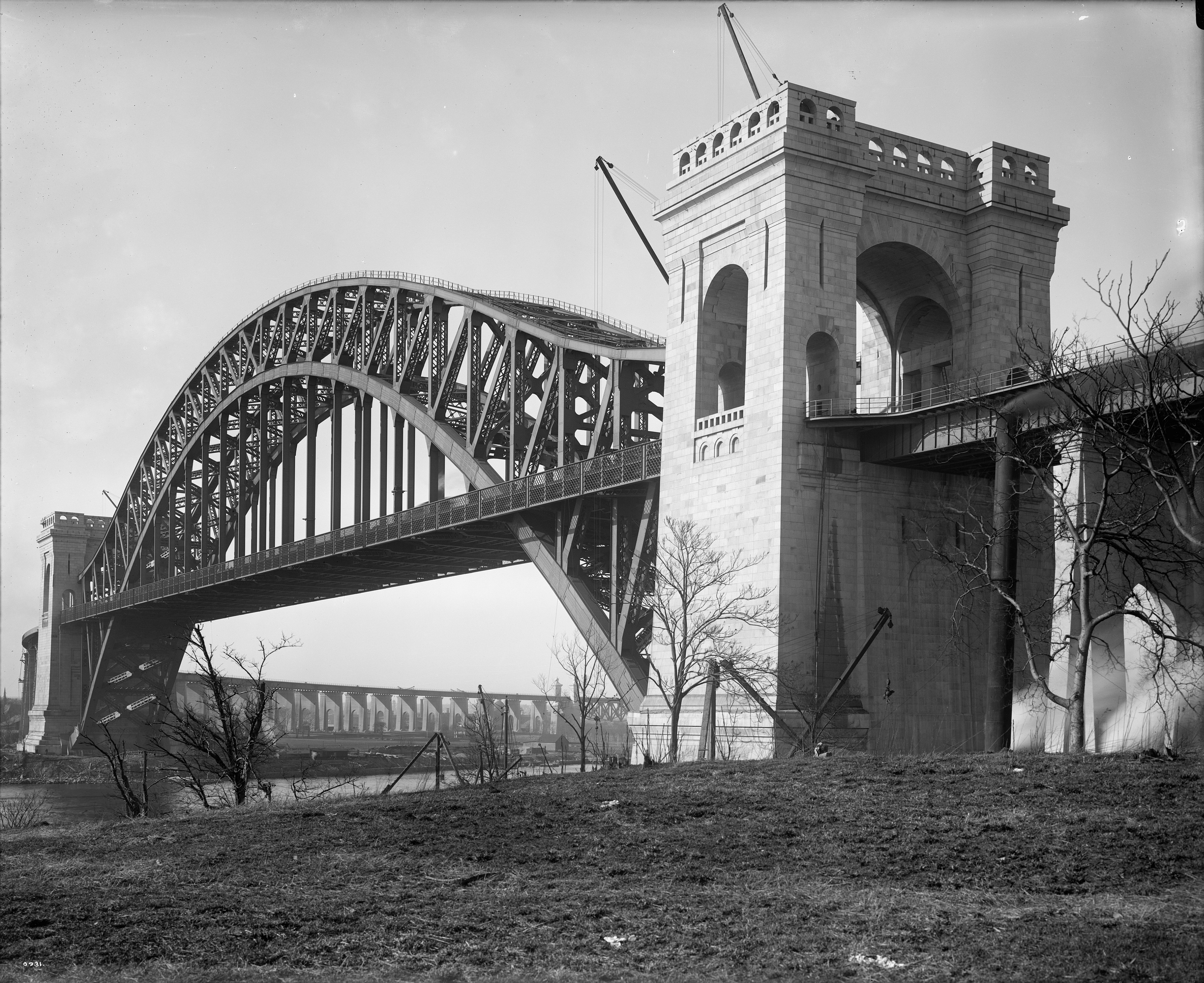 Hell Gate Bridge (New York Connecting RailroadBridge), New York